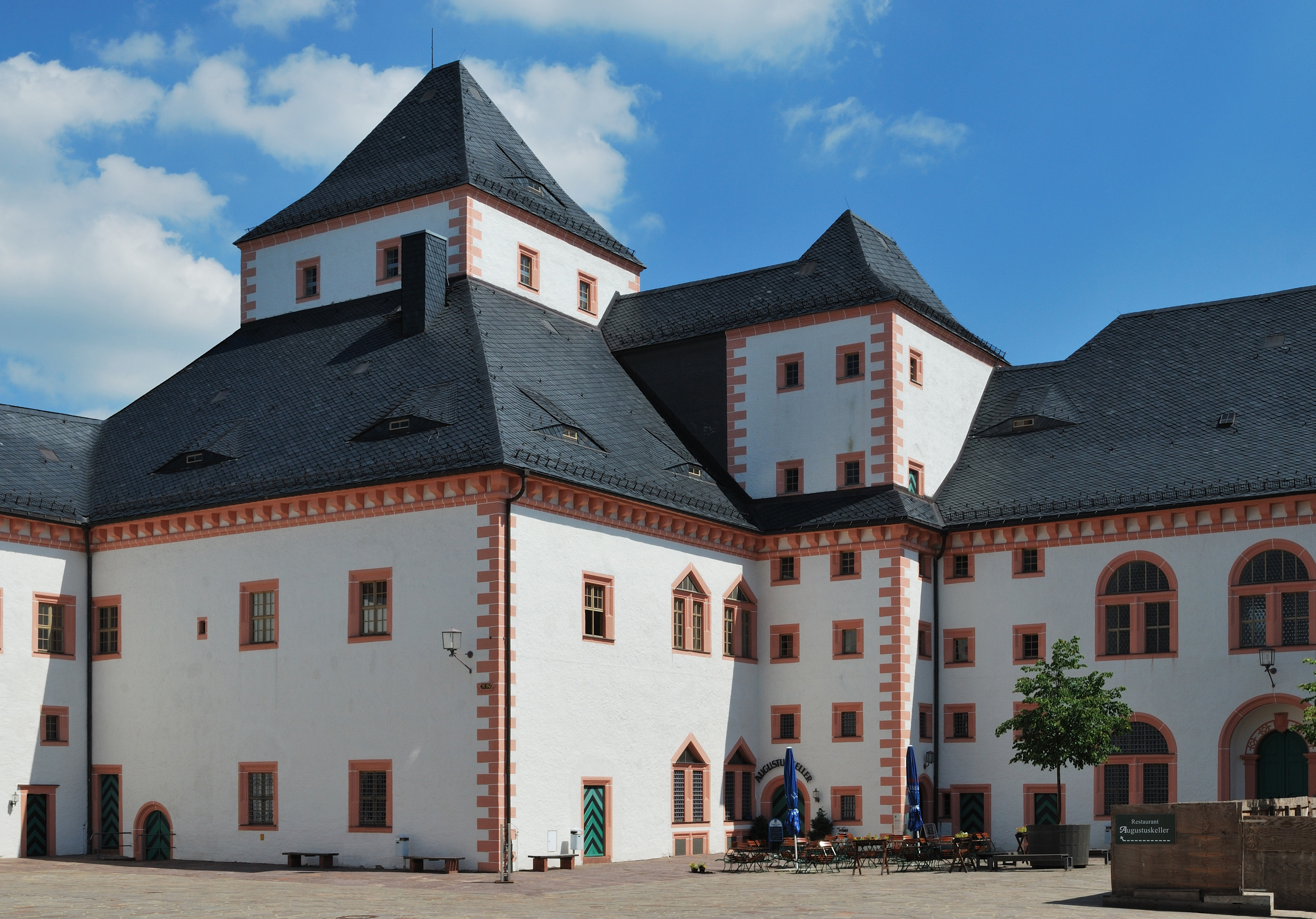 Inner courtyard of the castle Augustusburg in Saxony in Germany.